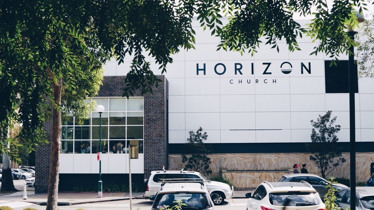 Outside Horizon Church in Sutherland